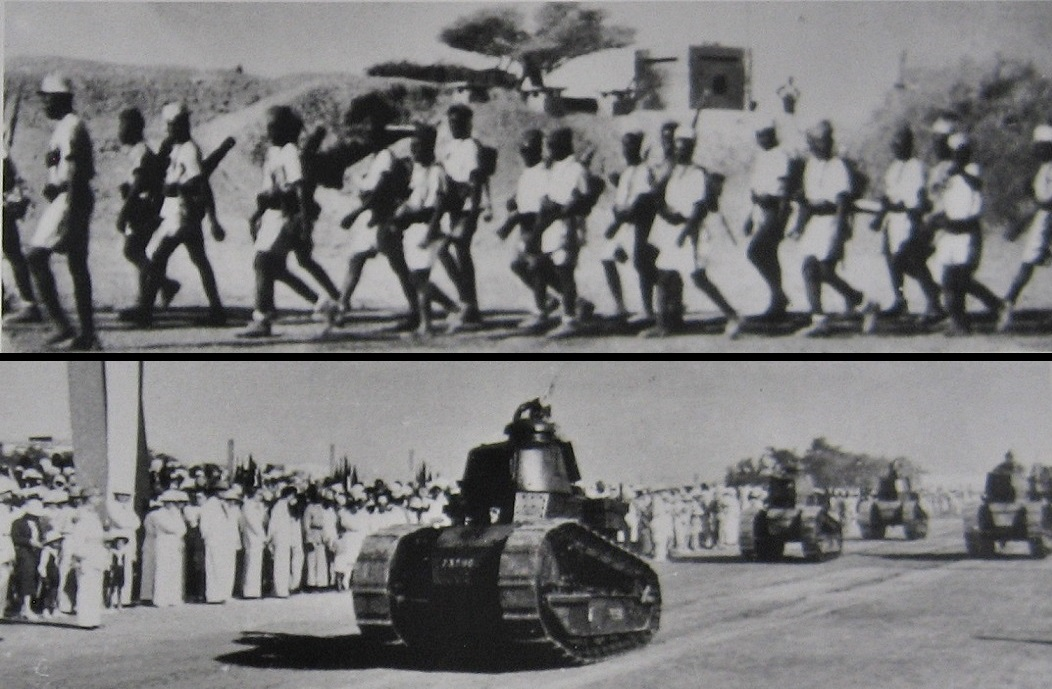 Pictures related to the French military build-up in Djibouti following Fascist Italy's demand in November 1938 that it be ceded French Somaliland. The top photograph shows African colonial troops marching in front of recently-built concrete gun positions. In the photo below, light tanks are rolling down in front of civilians and government officials.